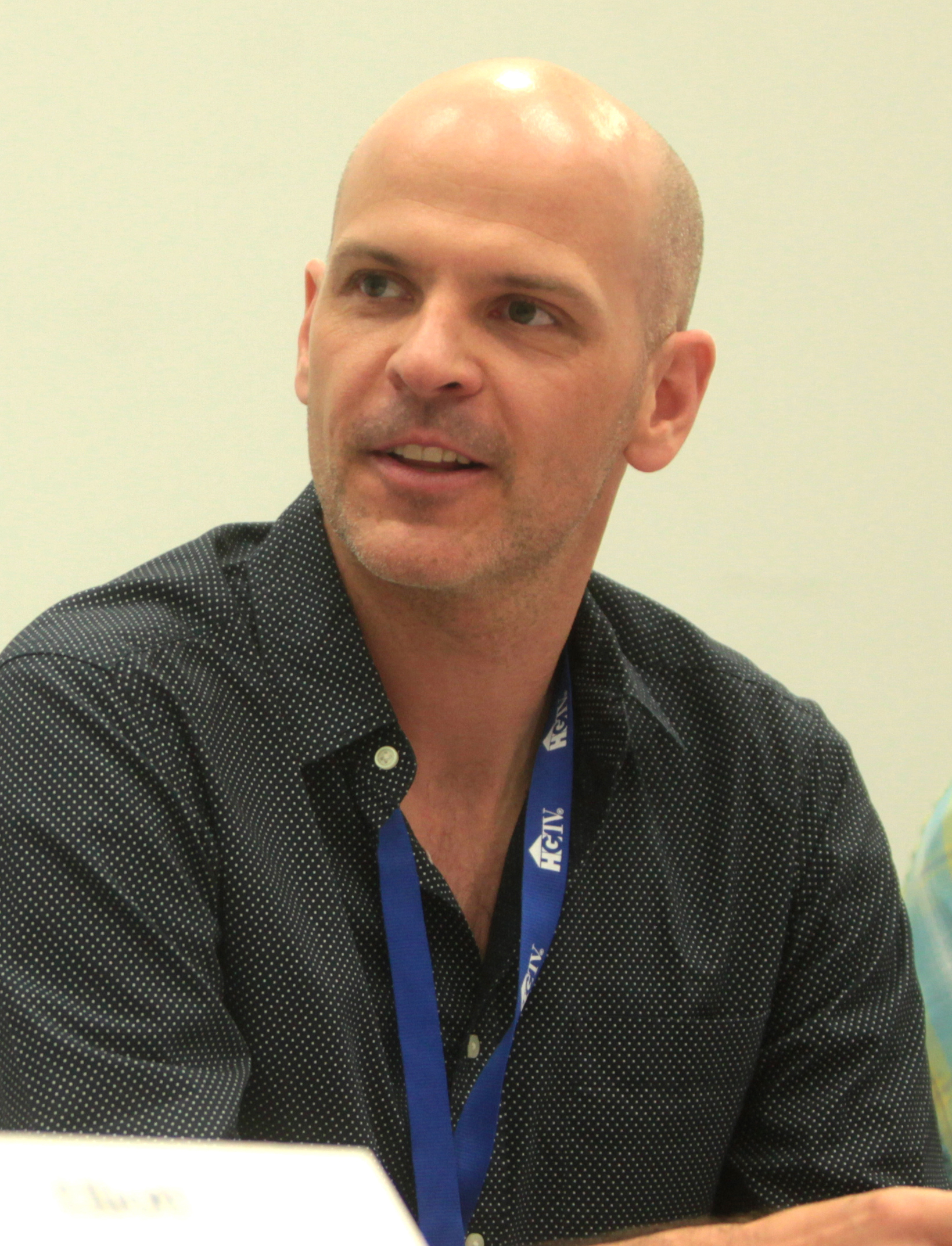 Todd Womack speaking at the 2014 VidCon on June 28, 2014.